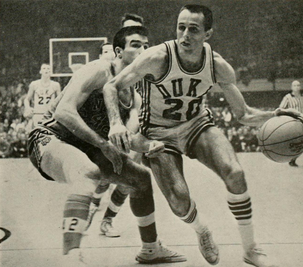 UNC #42 Charlie Shaffer; Duke #20, Jack Mullen, 1962